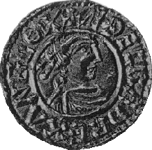 Coin of Æthelred of Wessex